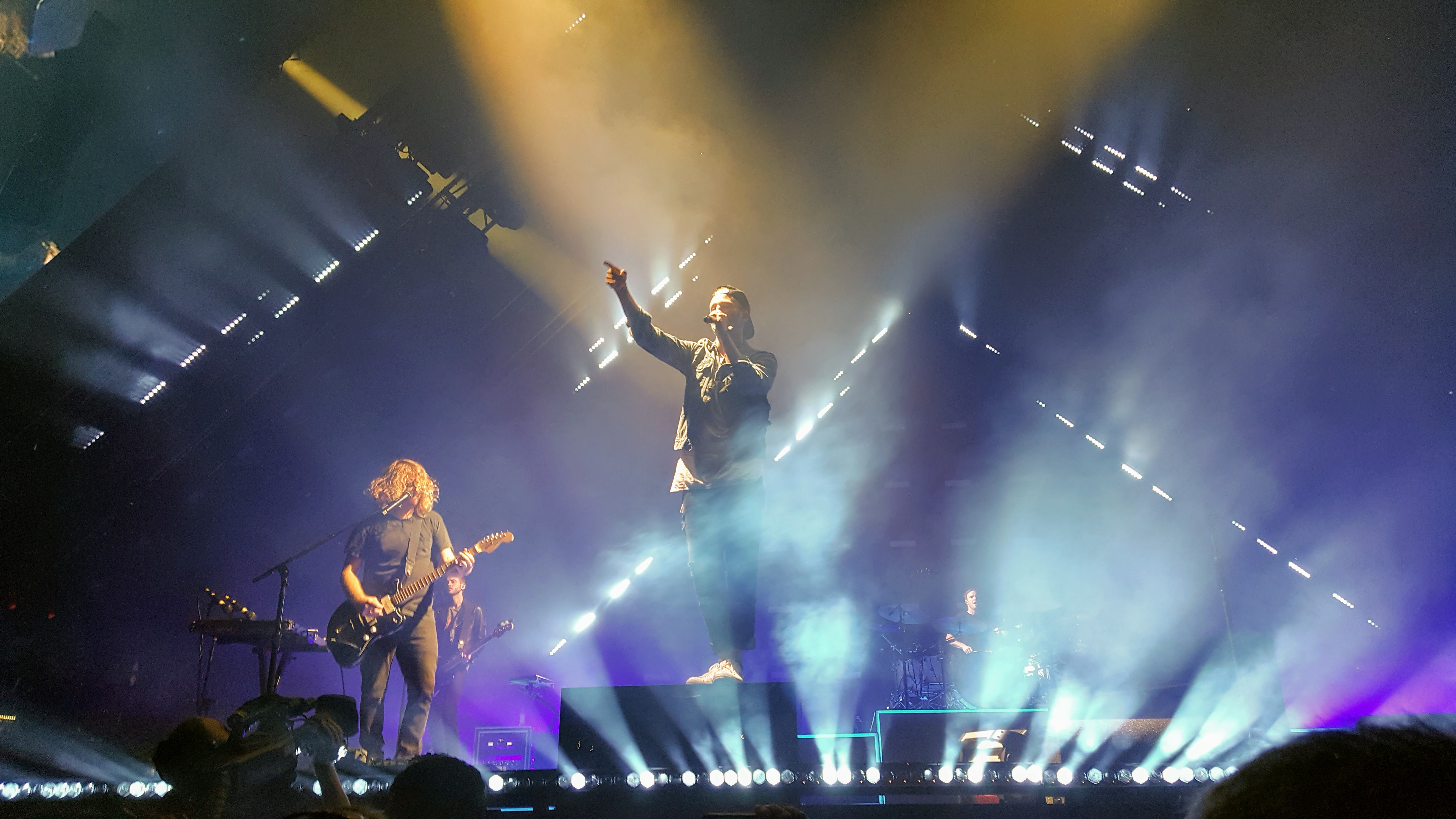 OneRepublic performing in Toronto, Canada, Aug 2017